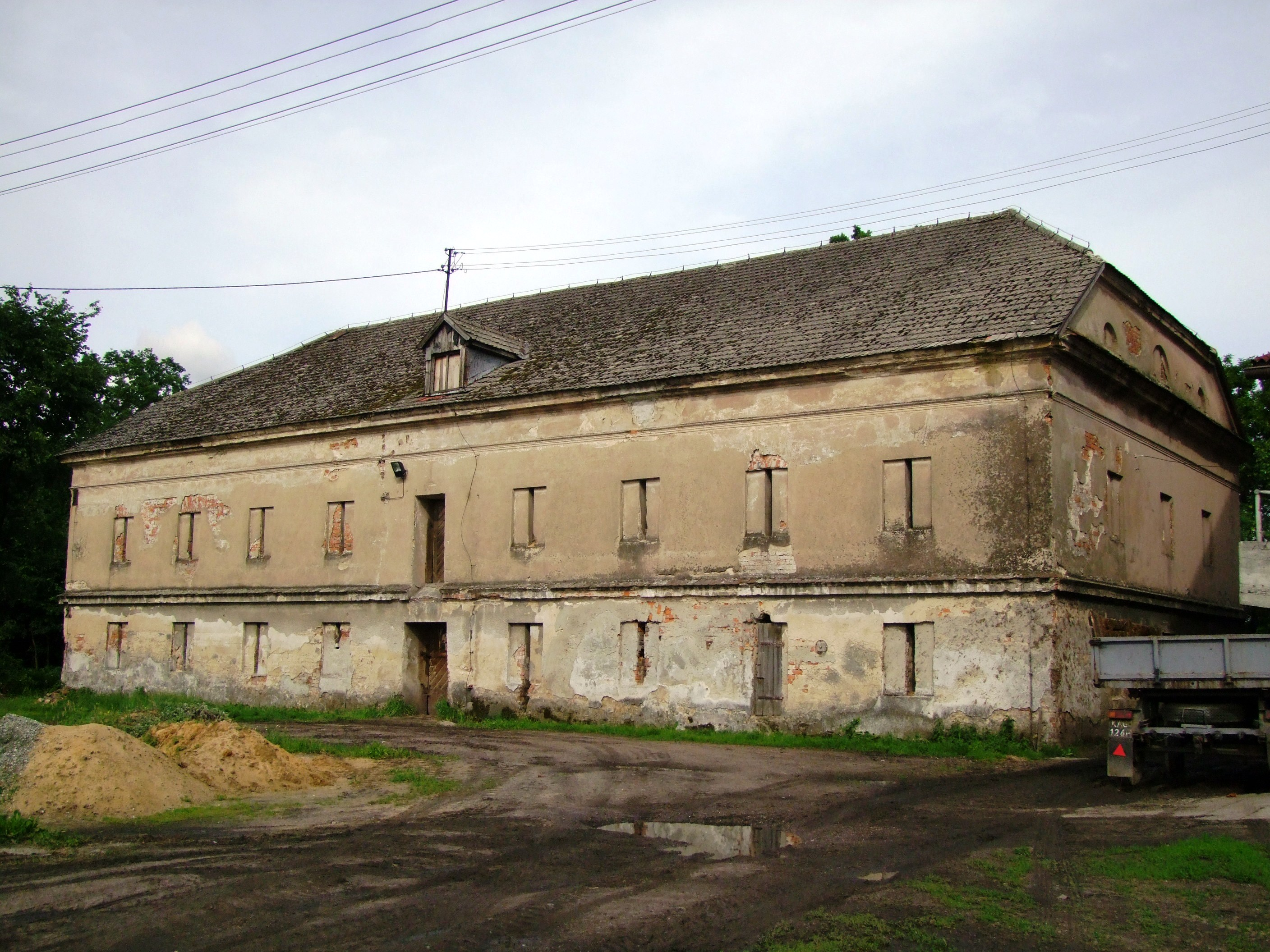 Granary in Mizerów. Side view.